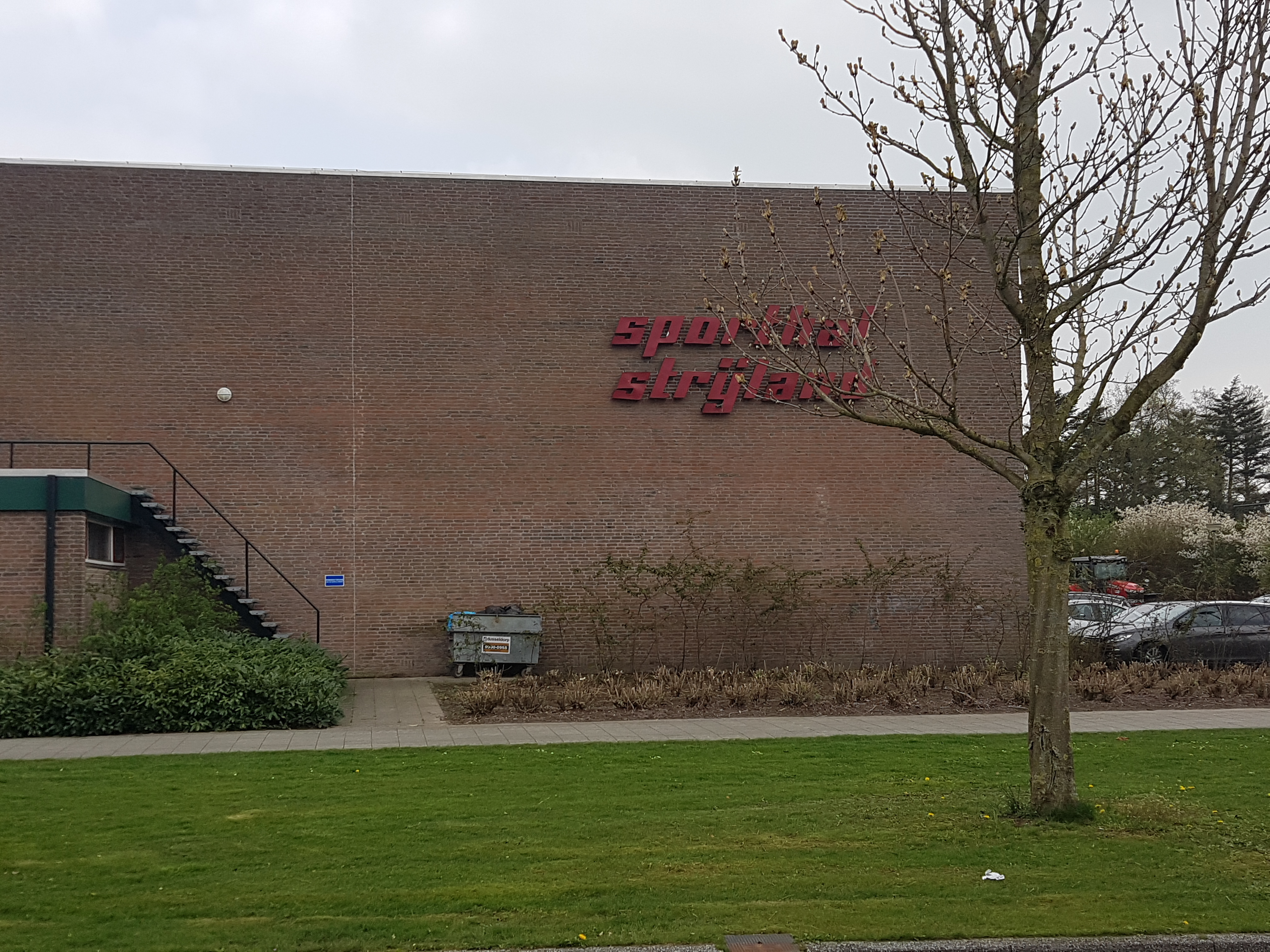 Sports Hall Strijland, Nijkerk 2